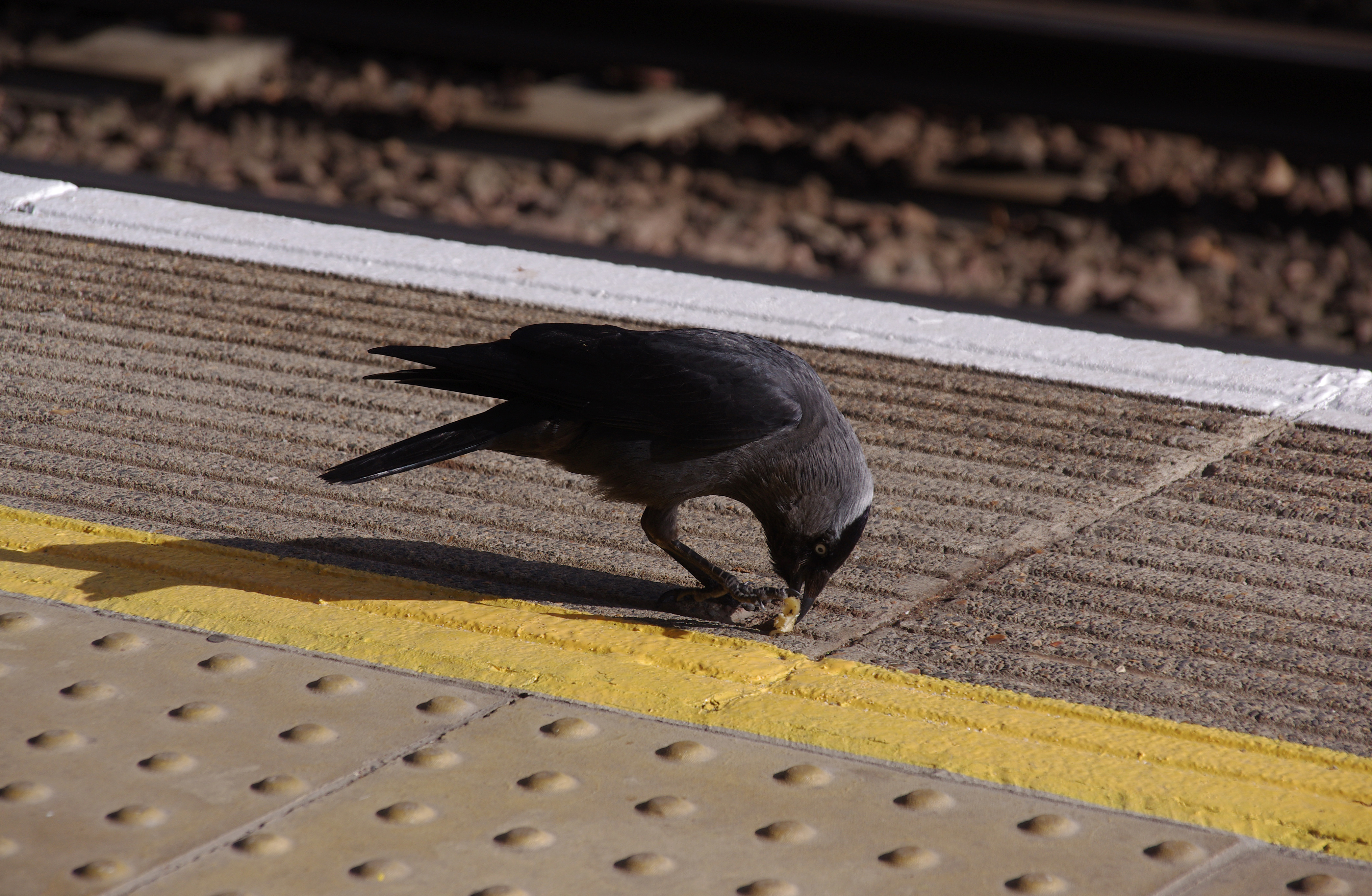 A bird (corvus monedula) on the platform at Amersham station.